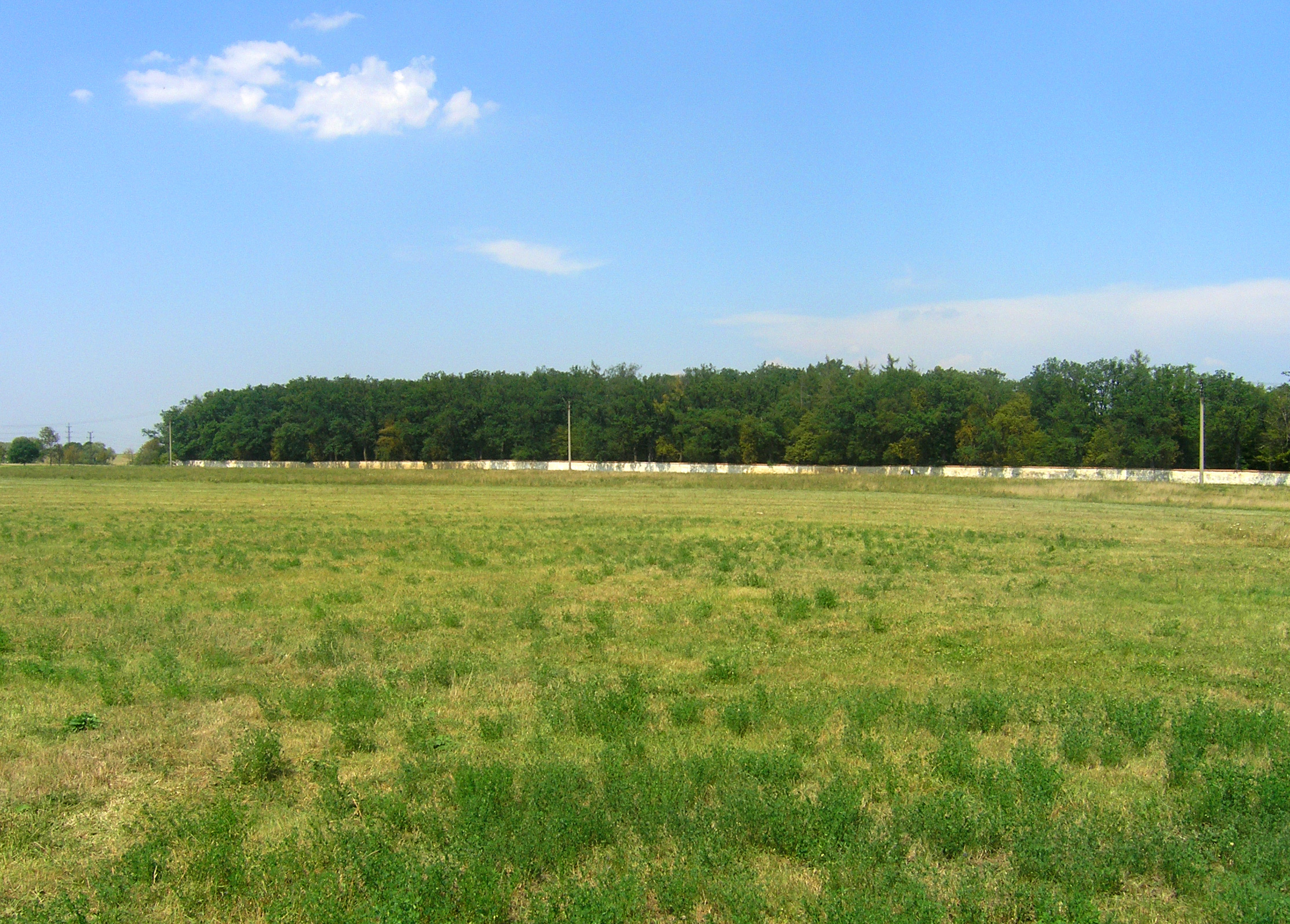 Koloděje game preserve park, Prague - view from Hájek near Uhříněves